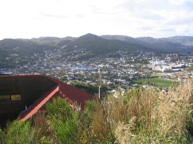 Picture of the suburb of Karori from Wrights Hill